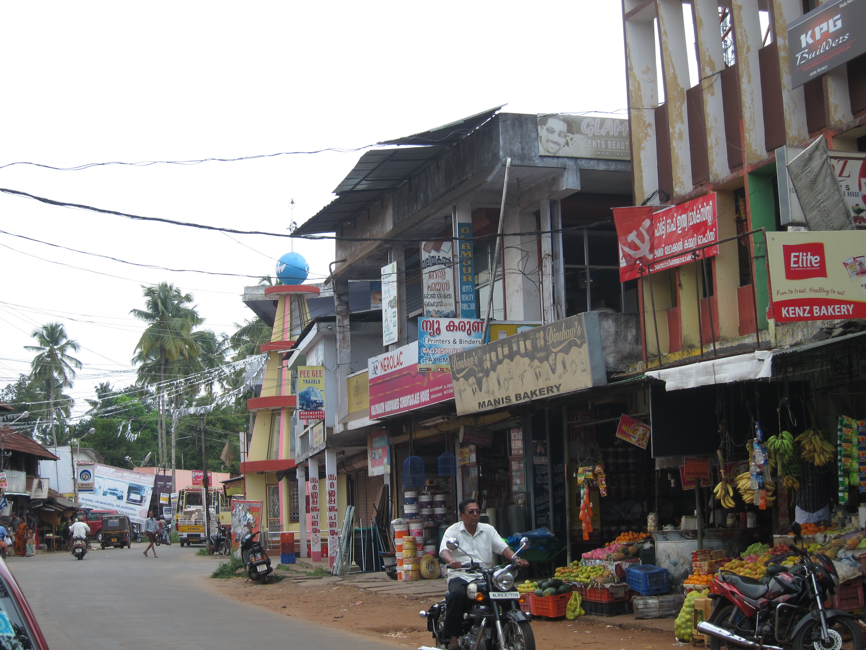 Kombodinjamakkal - കൊമ്പൊടിഞ്ഞാമാക്കൽ ആളൂരിൽ നിന്നുള്ള വഴിയിൽ നിന്ന് Mala - മാള Thrissur - ത്രിശ്ശൂർ